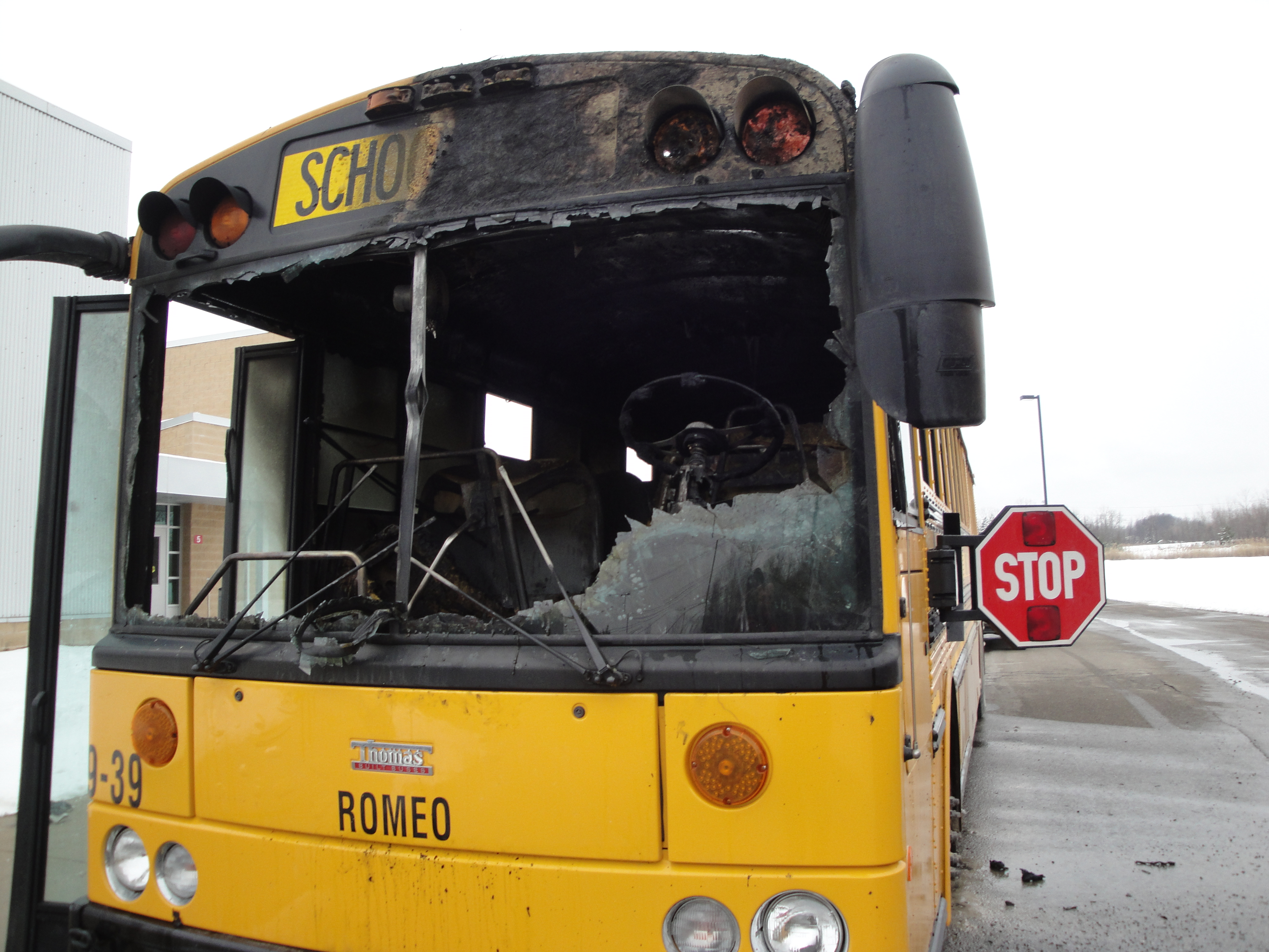 A school bus caught on fire at the RETC.